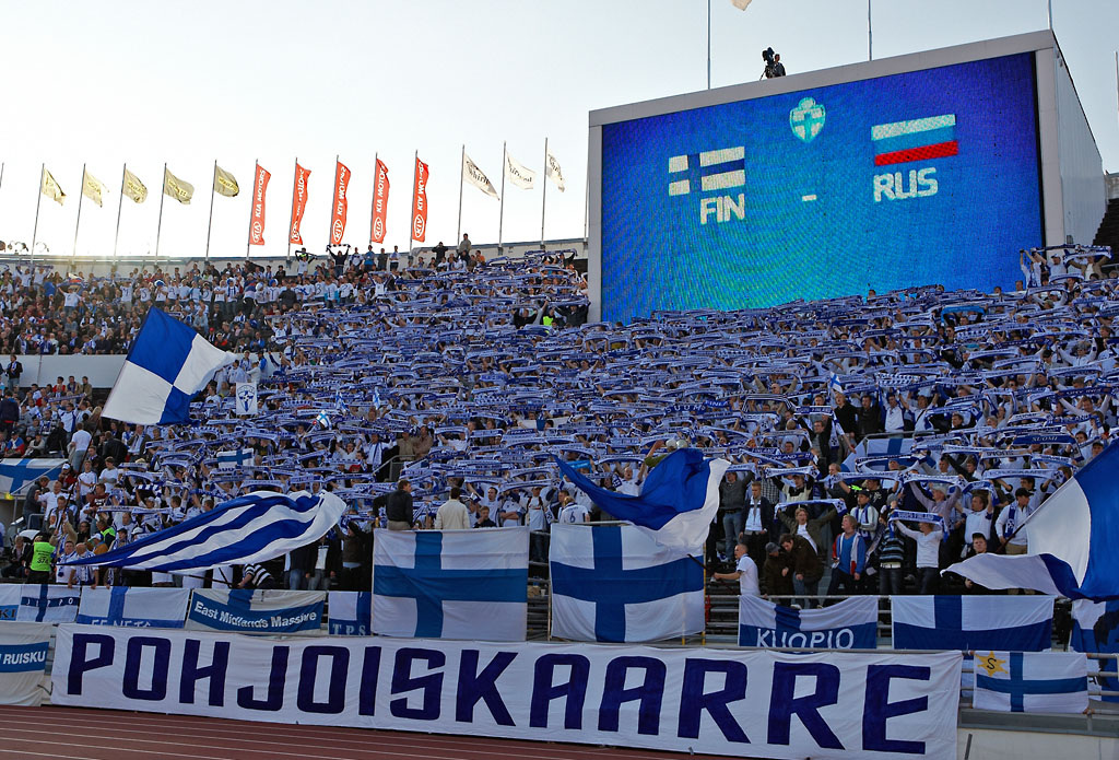 Supporters of Finland at 2010 World Cup qualifying against Russia in Helsinki